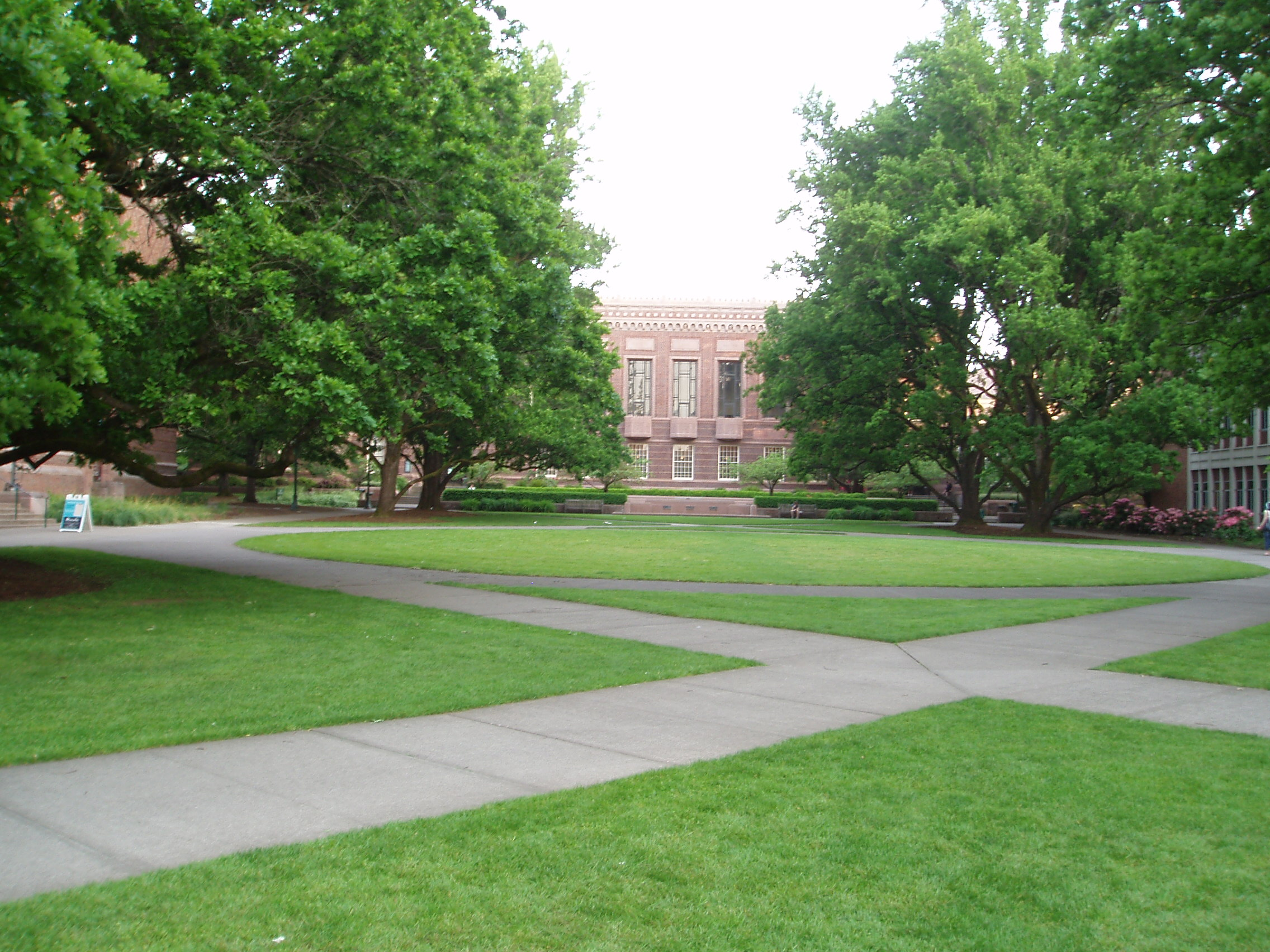 View of the Memorial Quadrangle looking south, toward the Knight Library, on the University of Oregon campus in Eugene, Oregon.